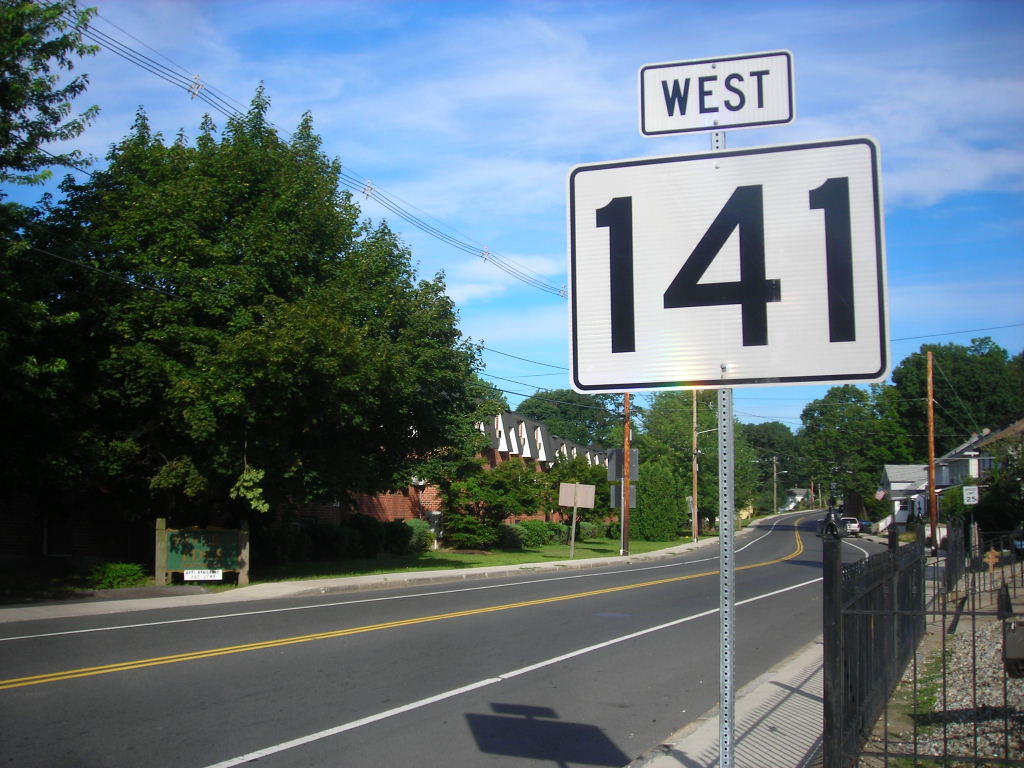 A large shield for Massachusetts Route 141 in Chicopee Falls, Massachusetts.